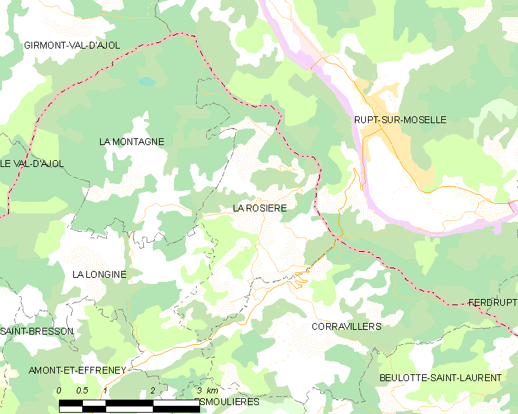 Map of French municipality